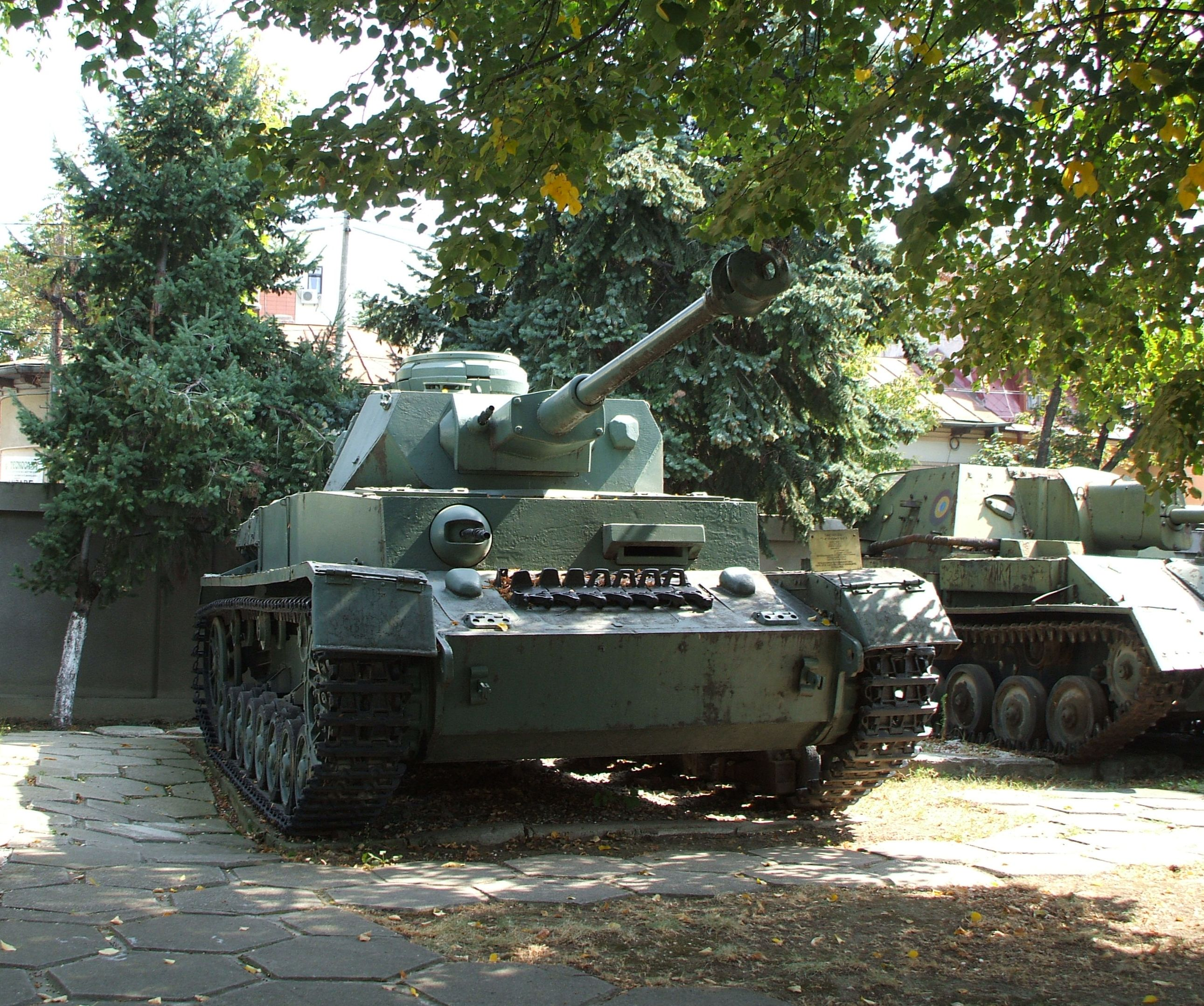 A Panzer IV Ausf. J on display at the National Military Museum in Bucharest.